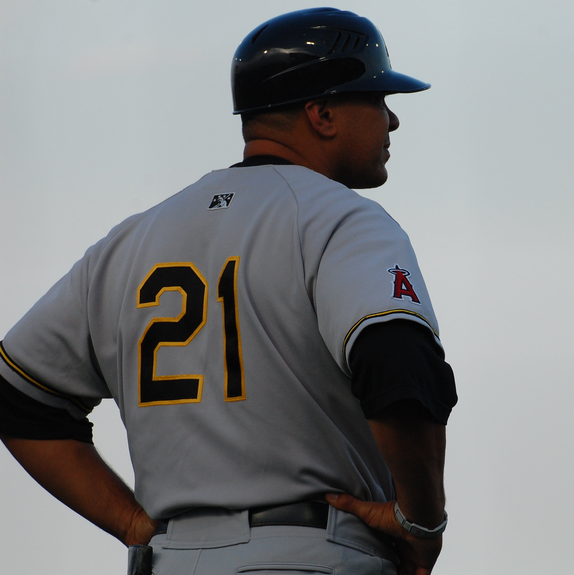 Keith Johnson, manager of the Salt Lake Bees, at Werner Park in Omaha during a 2012 game against the Omaha Storm Chasers